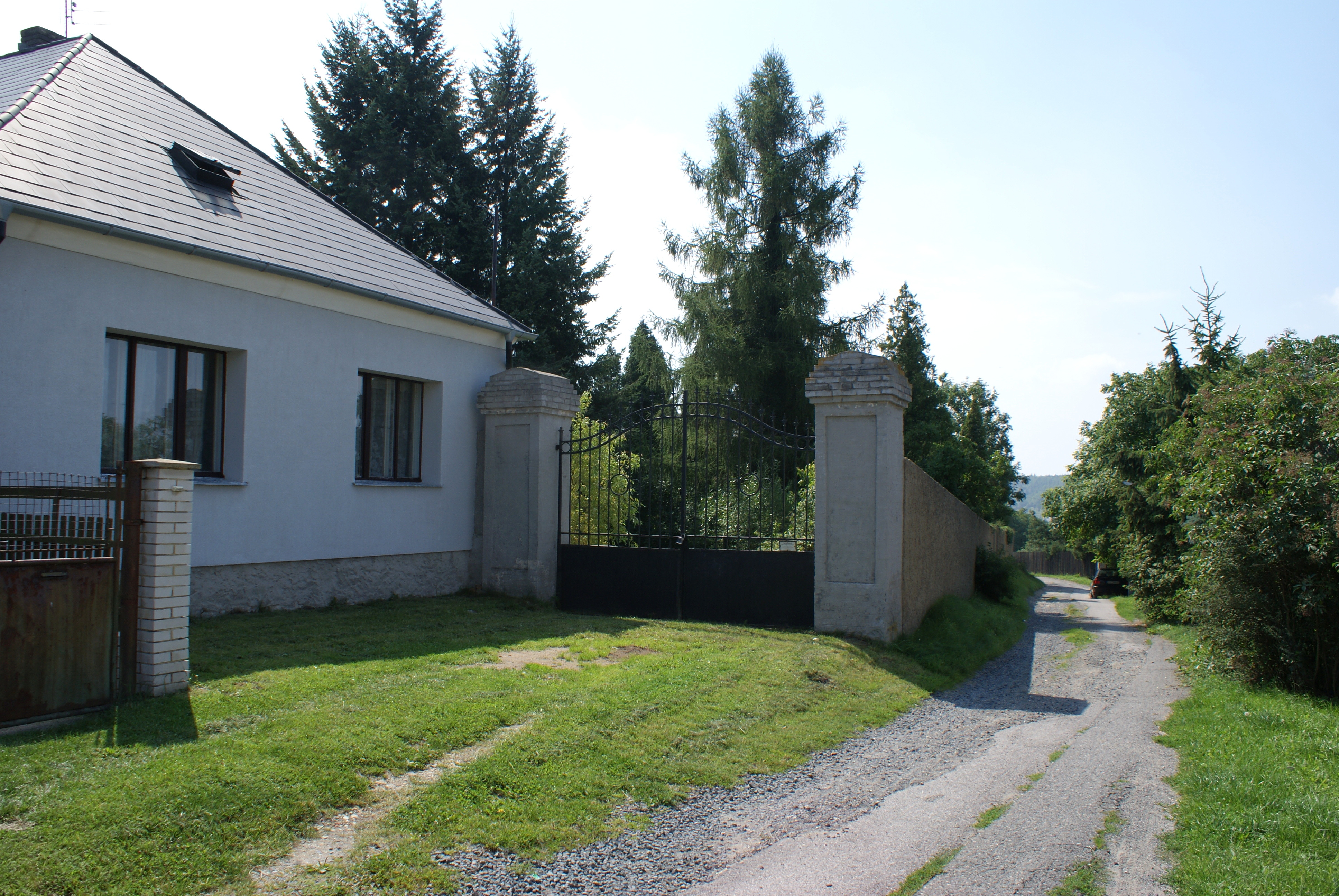 Jewish cemetery in Nové Strašecí, a town in Rakovník District, Central Bohemian region, Czech Republic. Česky: Židovský hřbitov v Novém Strašecí, okr. Rakovník